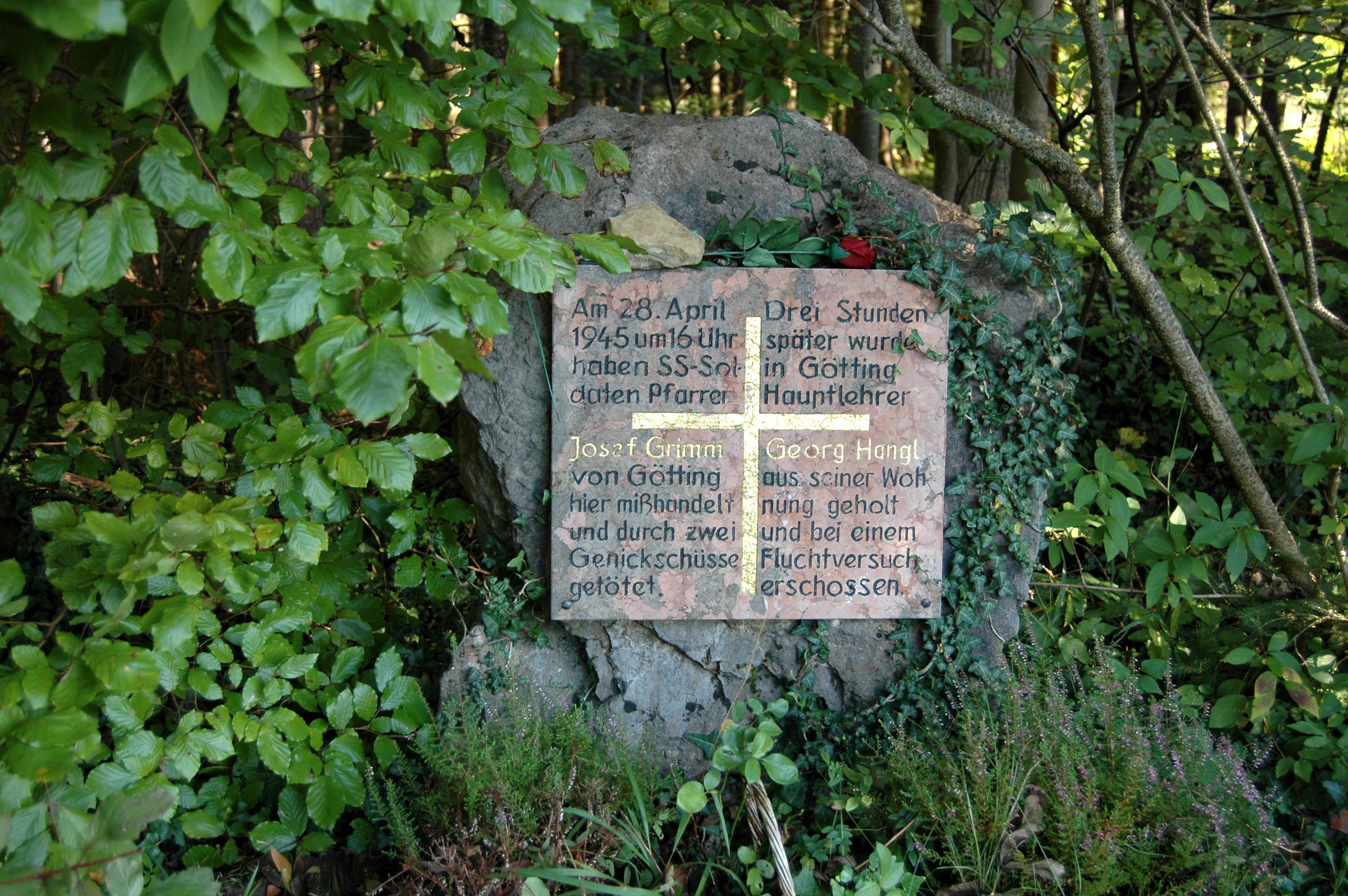 Grimm/Hangl memorial stone near Unterleiten/Bruckmühl